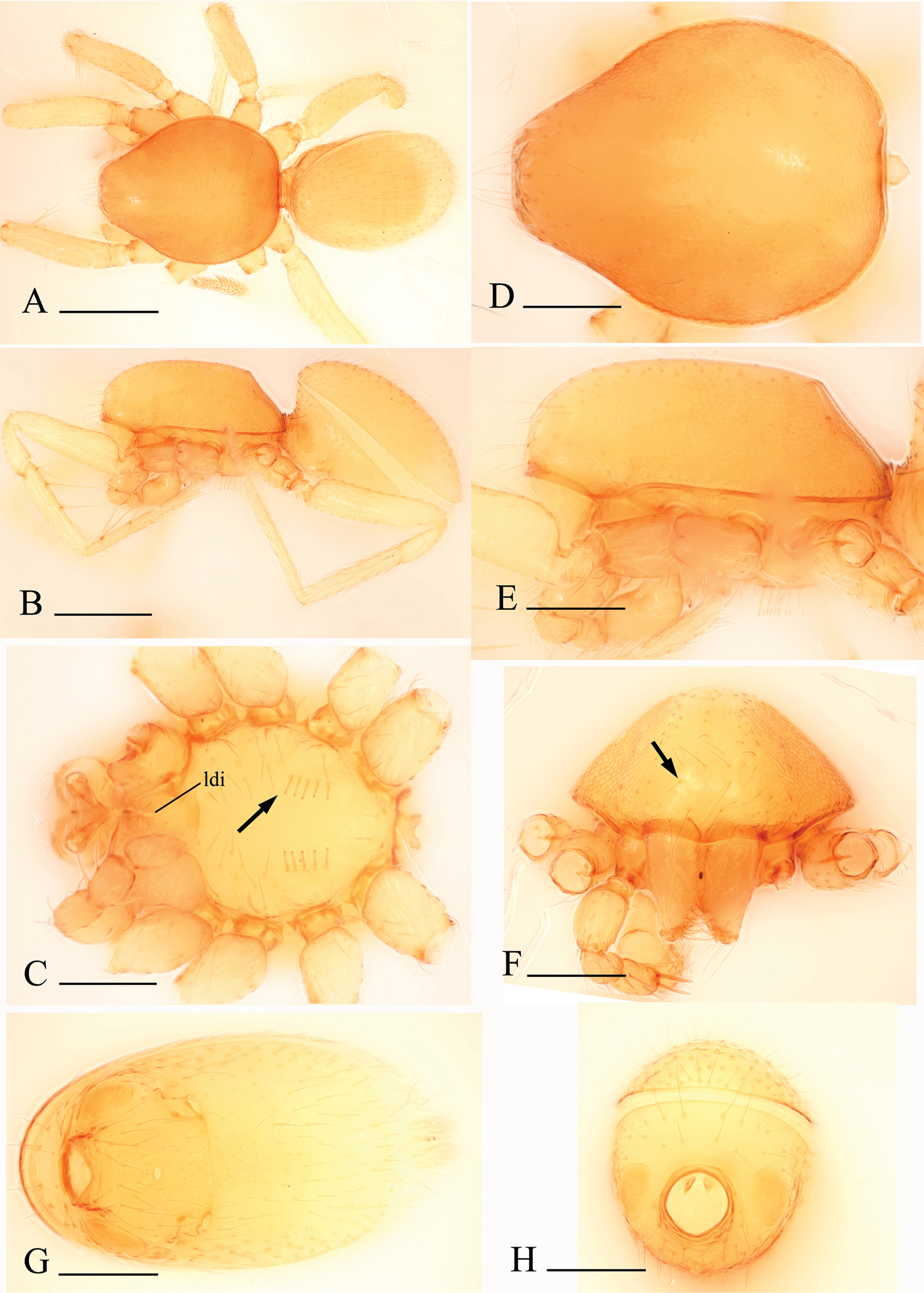 Bannana crassispina male. A, B Habitus, dorsal and lateral views C, D, E, F Prosoma, ventral, dorsal, lateral and anterior views (arrows show the regular setae in Fig. C and the reduced eyes in Fig. F) G, H Abdomen, ventral and anterior views. Abbreviation: ldi = labium deep incision. Scales bar: A, B = 0.4 mm; C–H = 0.2 mm.